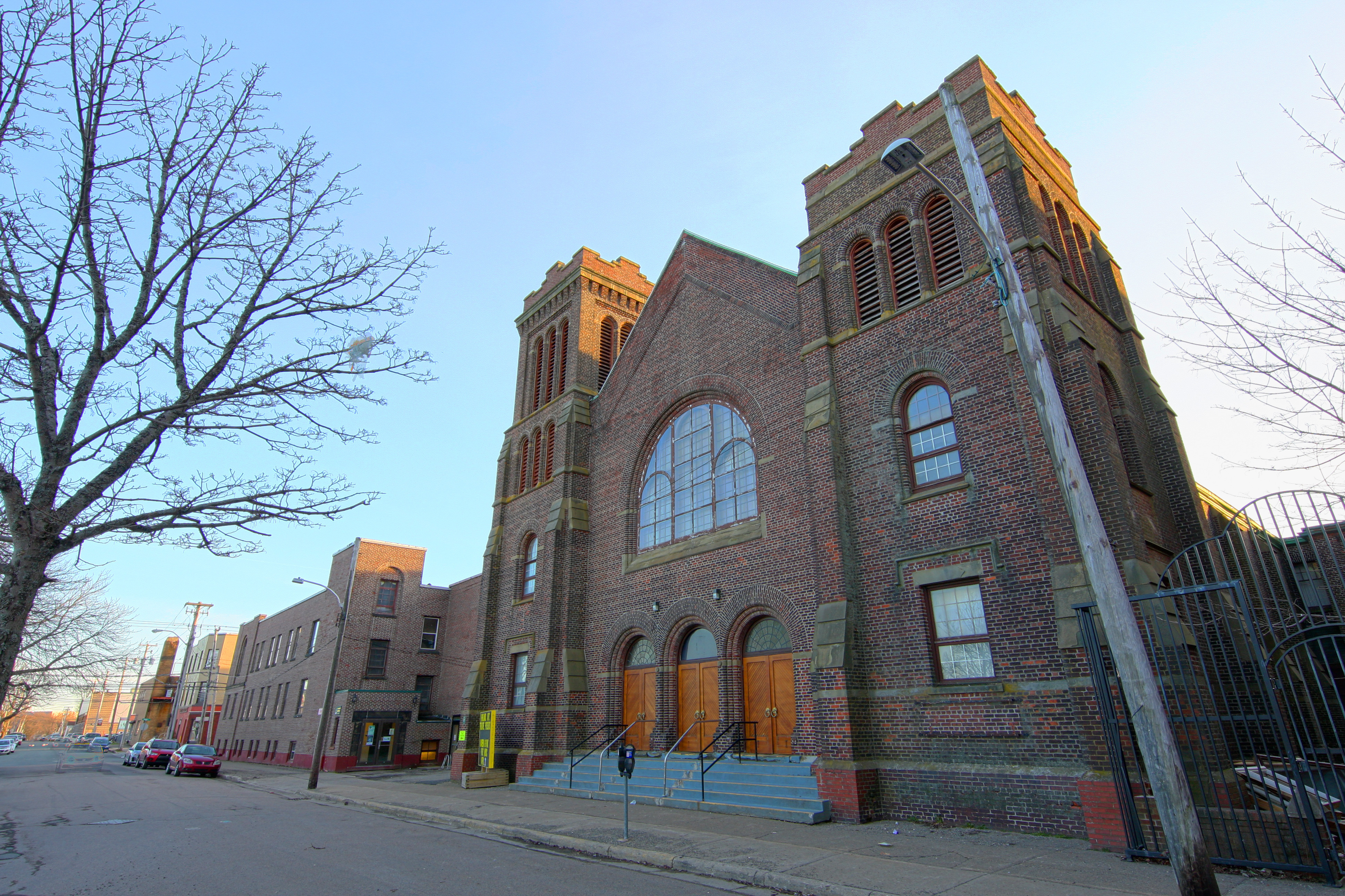 The Highland Arts Theatre is a historic building, first constructed as a Presbyterian Church, now operating an arts and culture centre in Sydney, Cape Breton Regional Municipality, Nova Scotia, Canada. It was initially constructed as St. Andrew's Presbyterian Church. In 2014 St. Andrew's reopened as the Highland Arts Theatre, a live play and film theatre and concert venue located in Sydney's waterfront district.